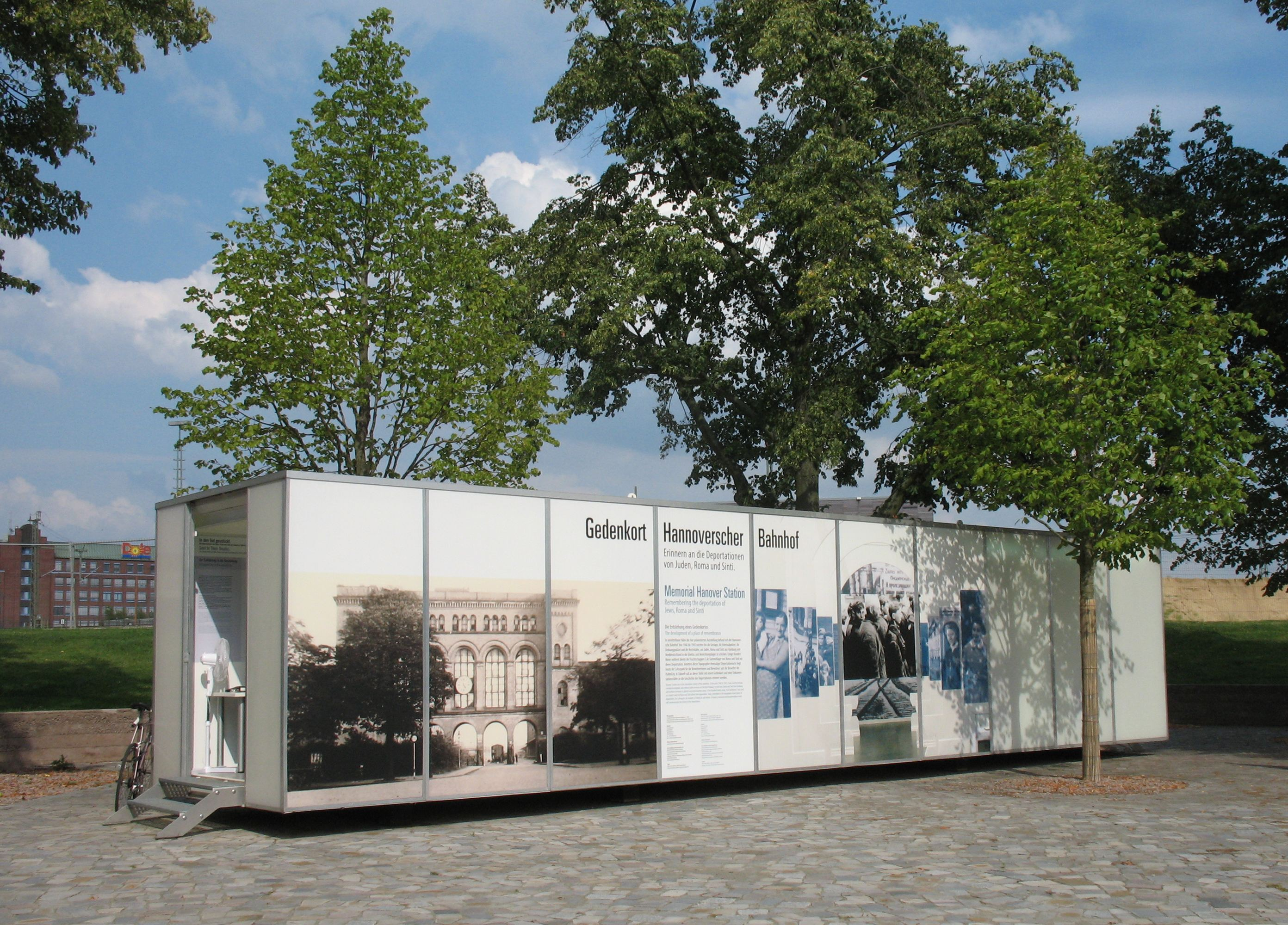 Deportation memorial in Hamburg-HafenCity, Germany